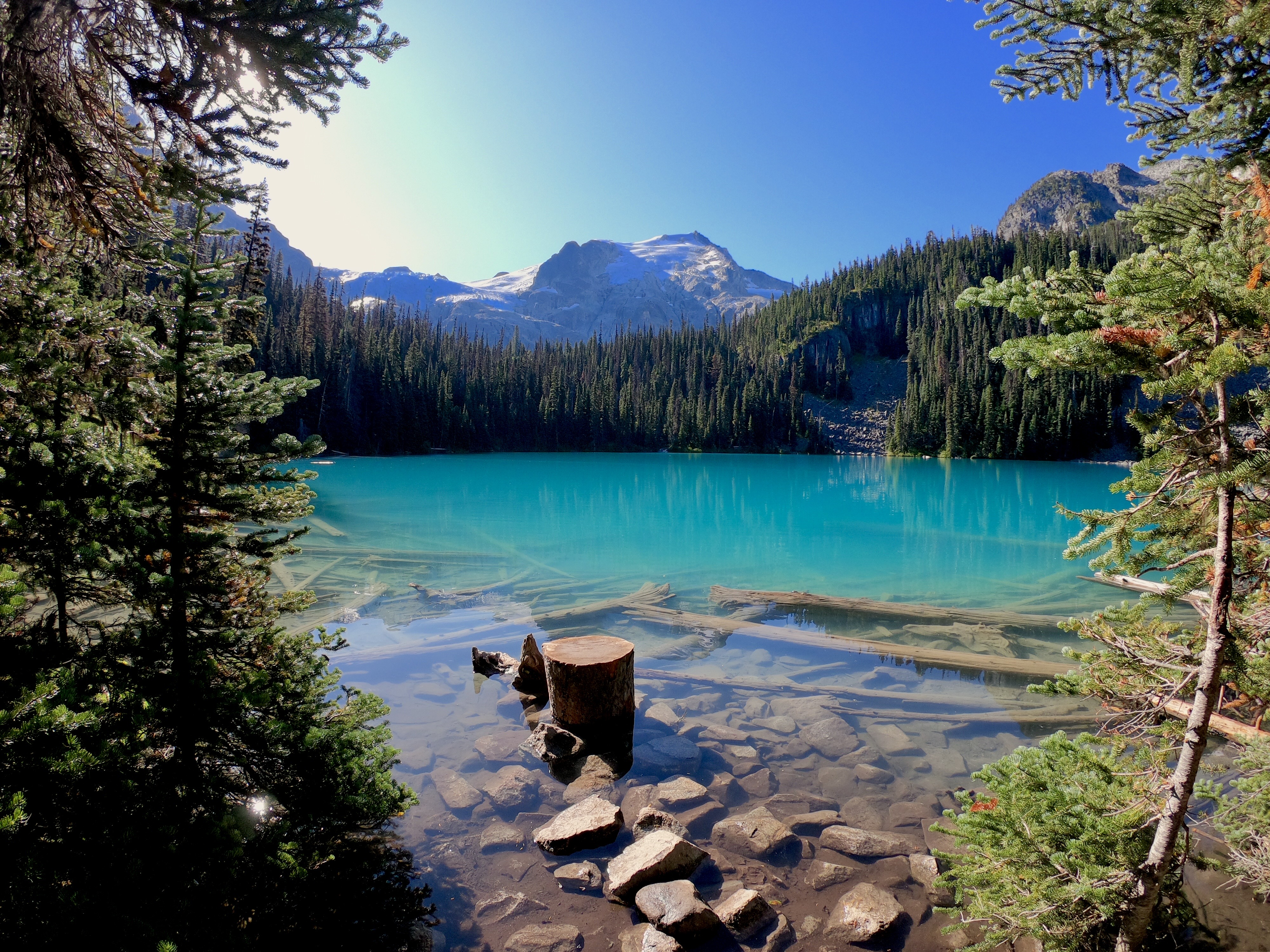 Joffre Lakes Provincial Park